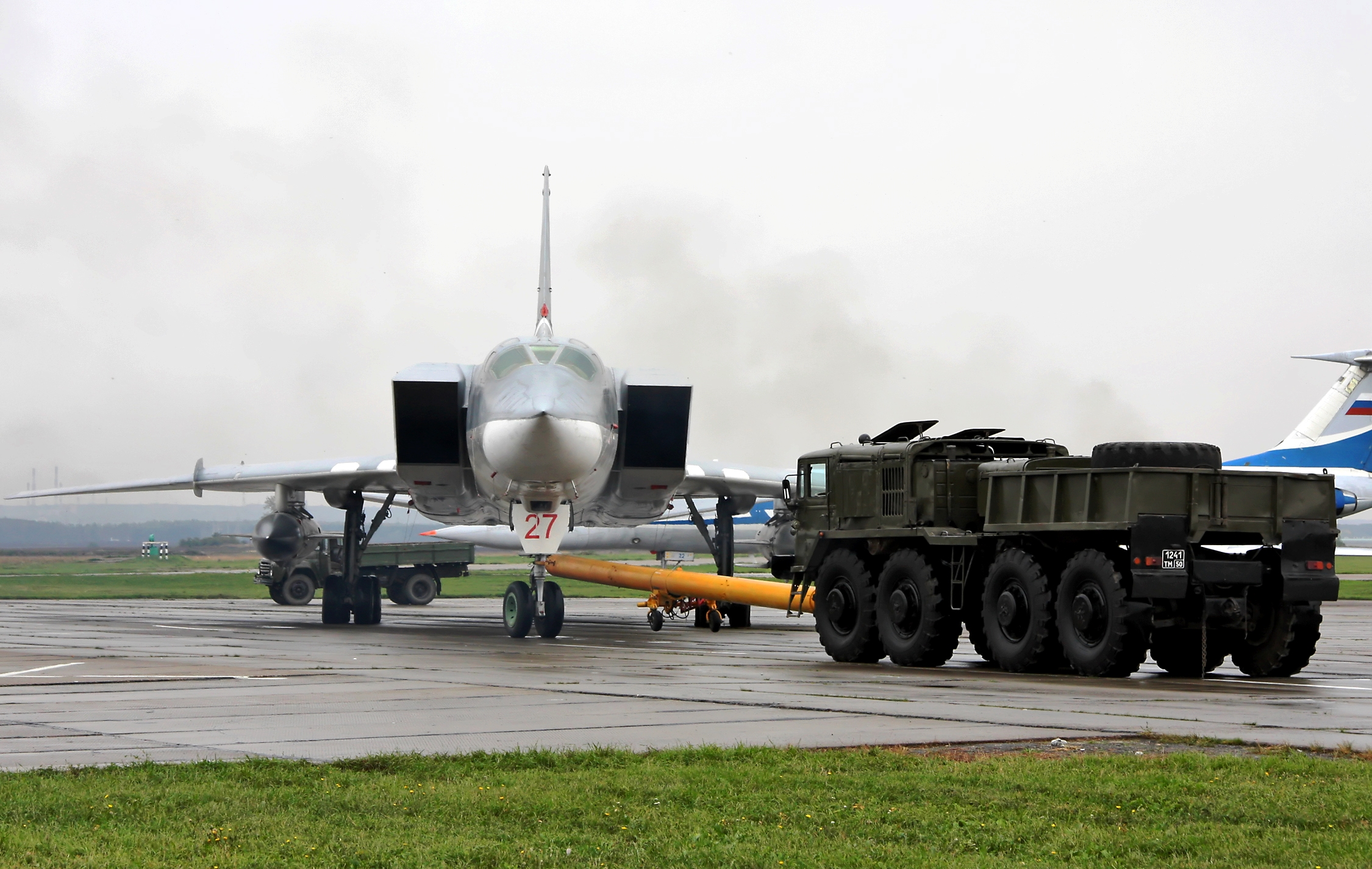 Tupolev Tu-22M3 at Dyagilevo airbase.